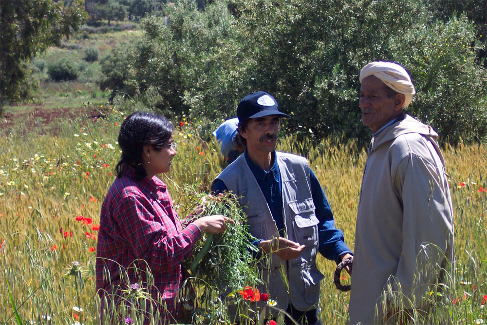 Nigel Maxted, University of Birmingham, UK. Picture taken in Marrocco